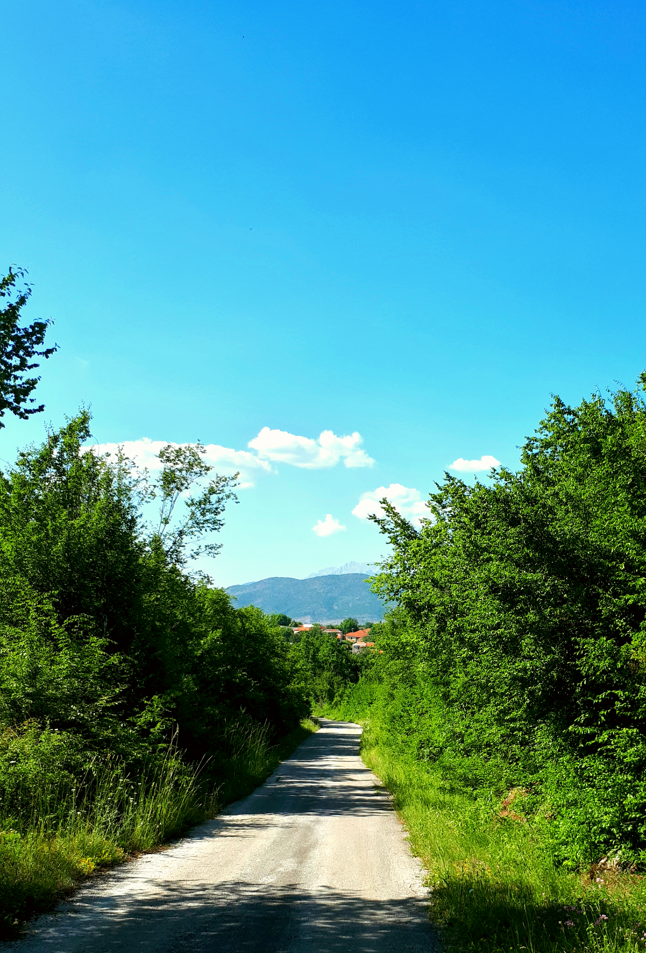 View of the village Lokvica